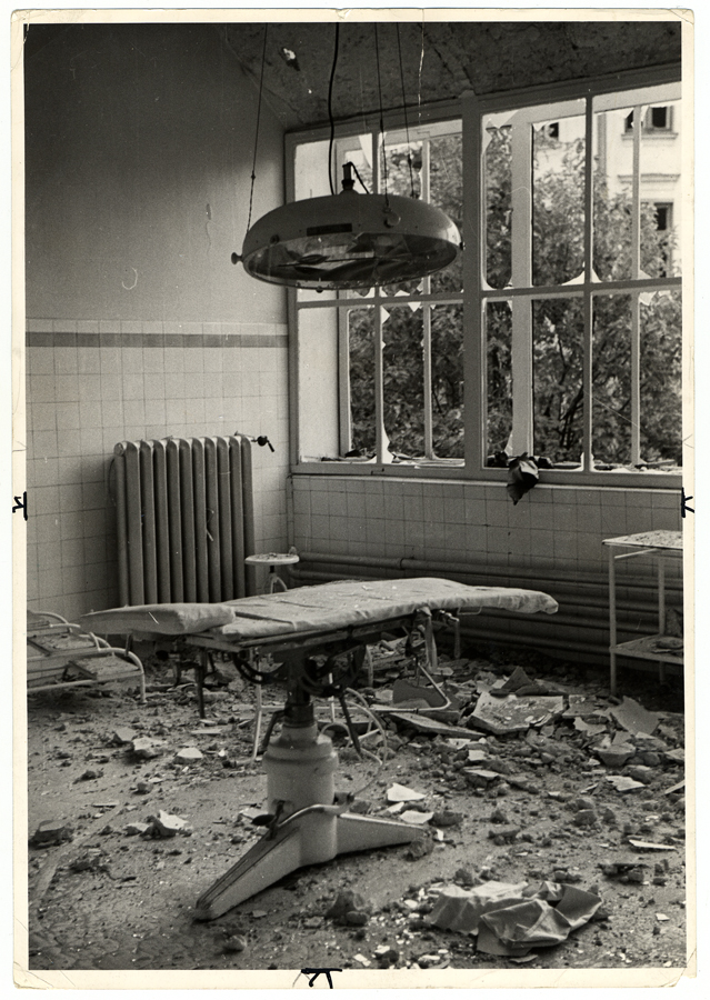 Siege of Warsaw by German forces in September of 1939: View of an operating table in the bombed out maternity ward in the Praski Hospital in Warsaw.